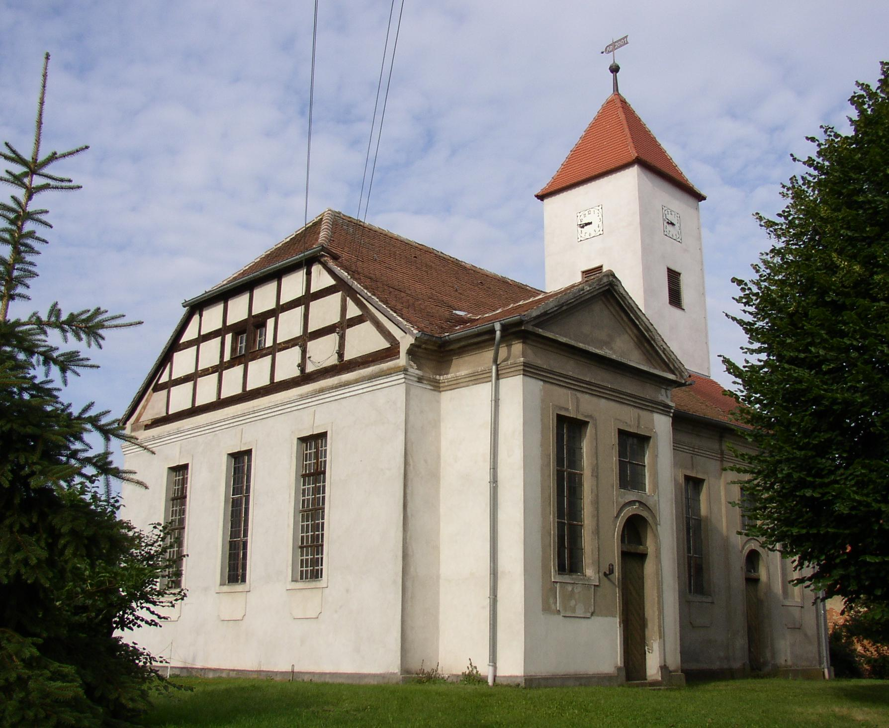 Church in Paplitz in Saxony-Anhalt, Germany